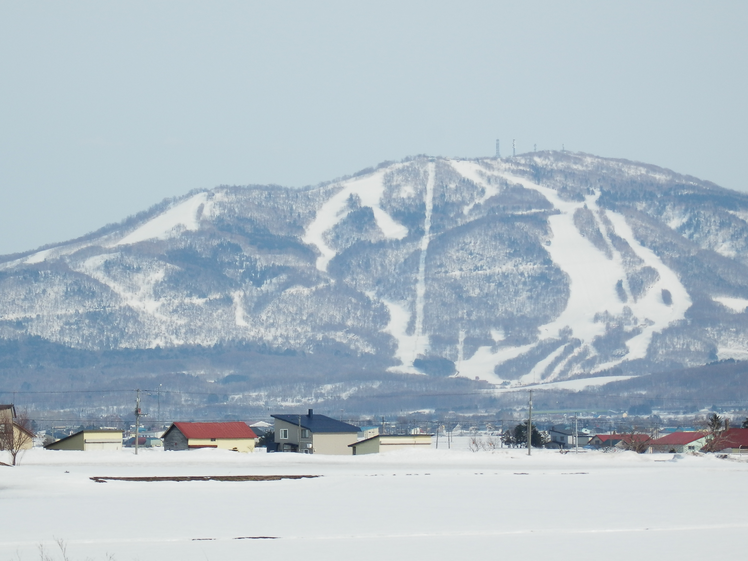 Kamui Skilinks is a ski resort in Asahikawa, Hokkaido, Japan.